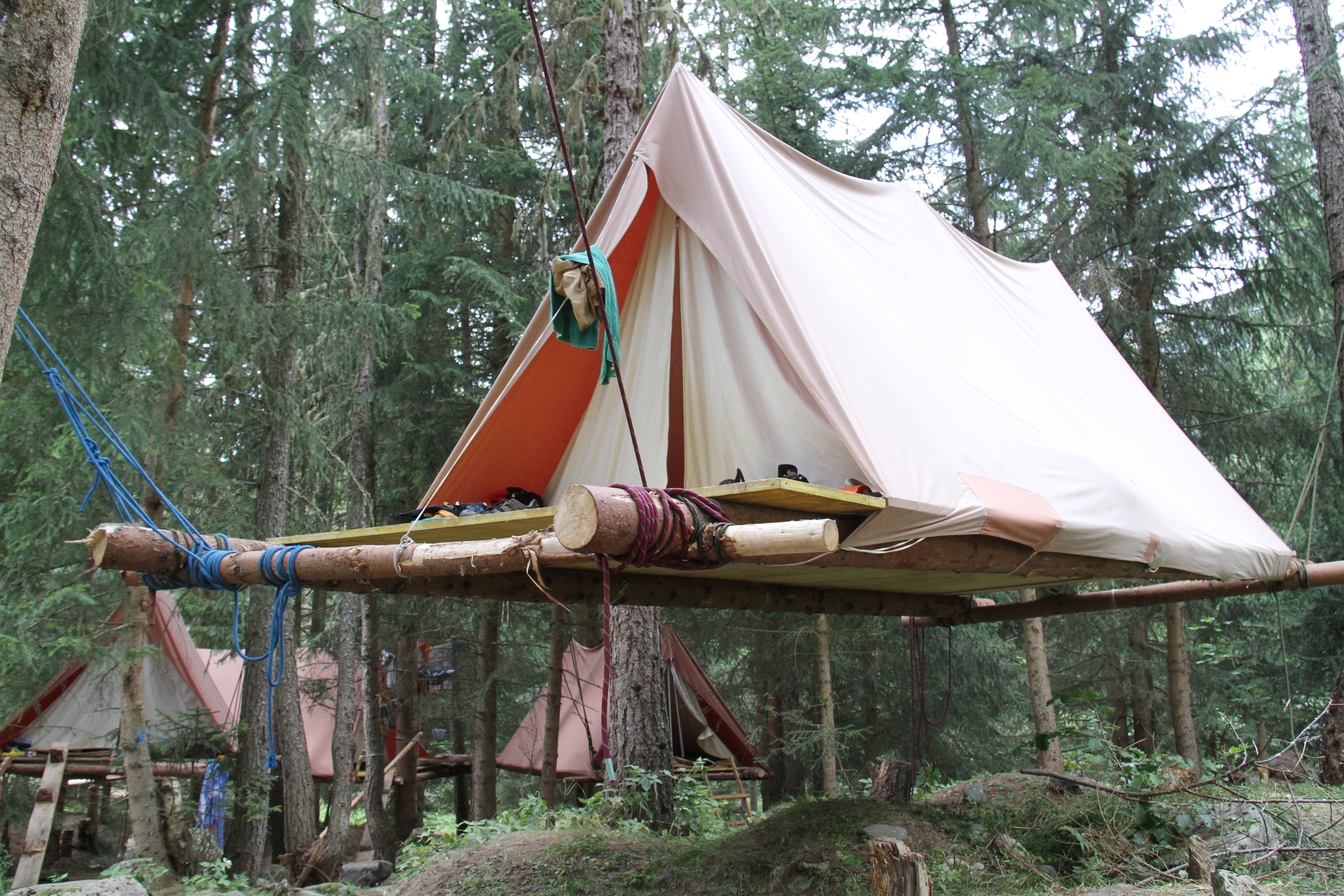 Tente suspendue